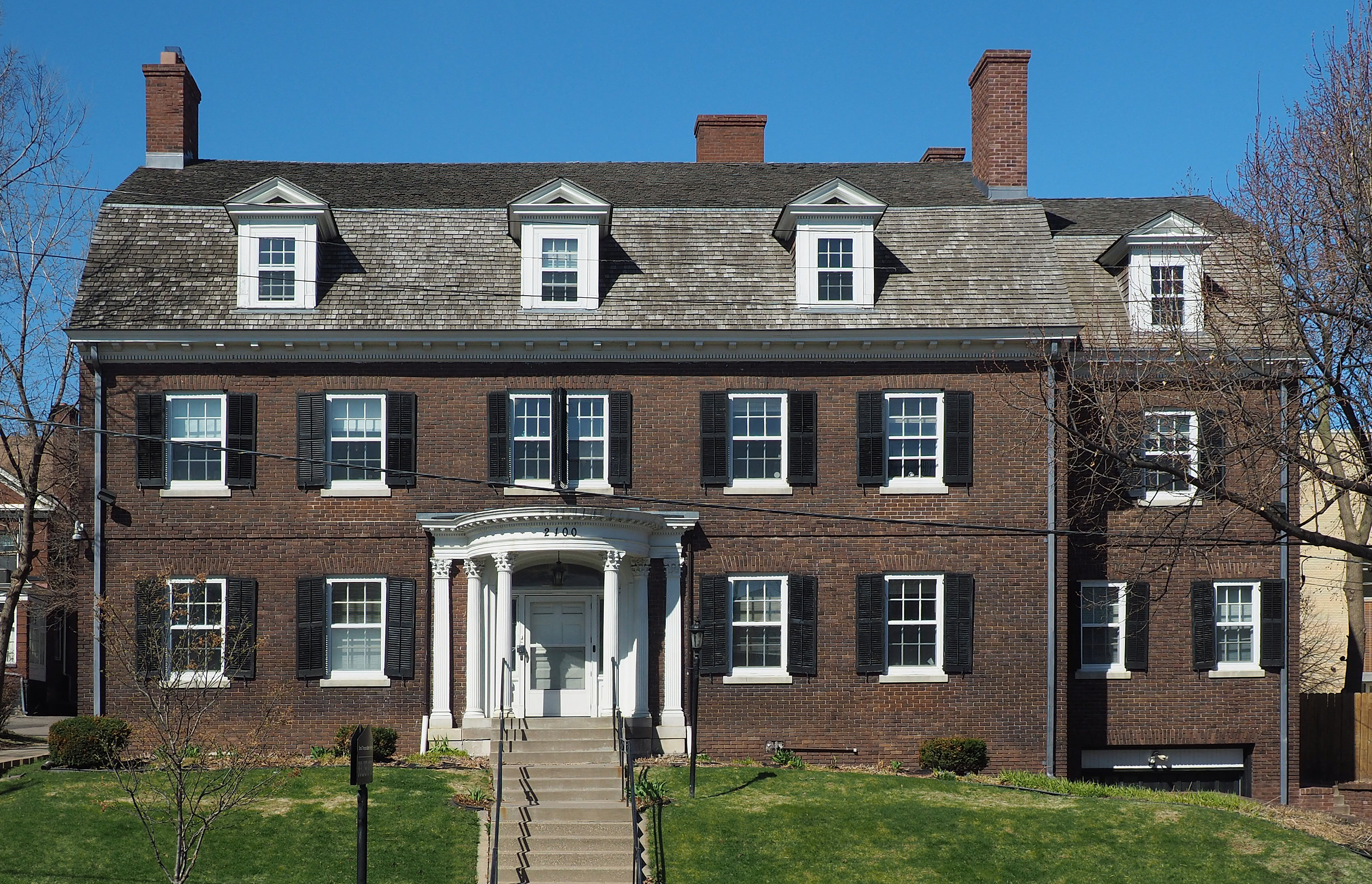 Luther Farrington House, 2100 Stevens Ave S, Minneapolis, Minnesota, USA. Viewed from the east. A contributing property to the Washburn-Fair Oaks Mansion District.